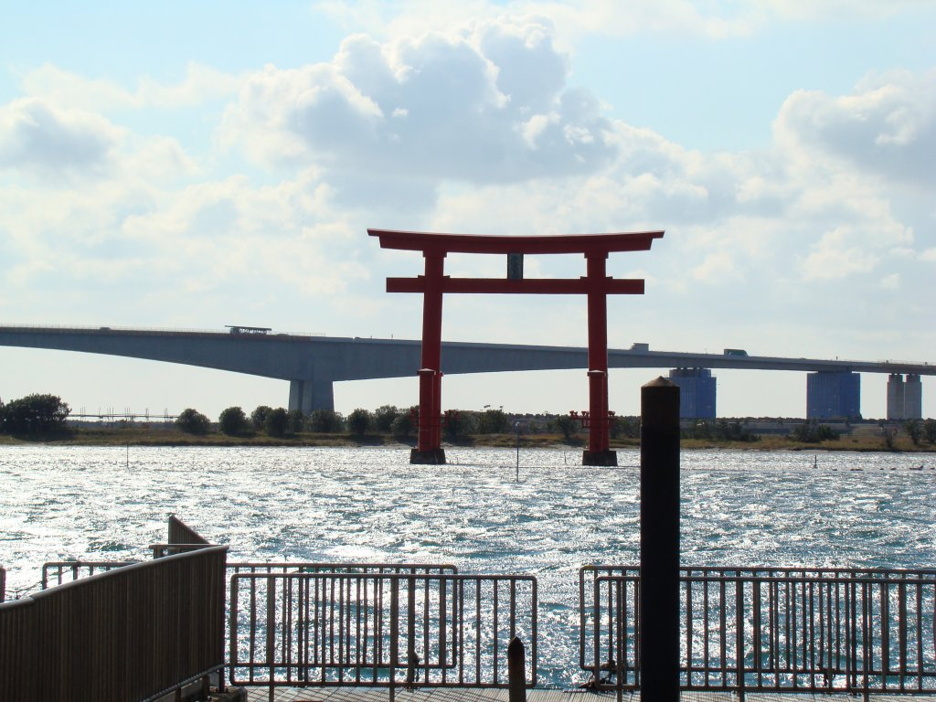 Lake Hamana.